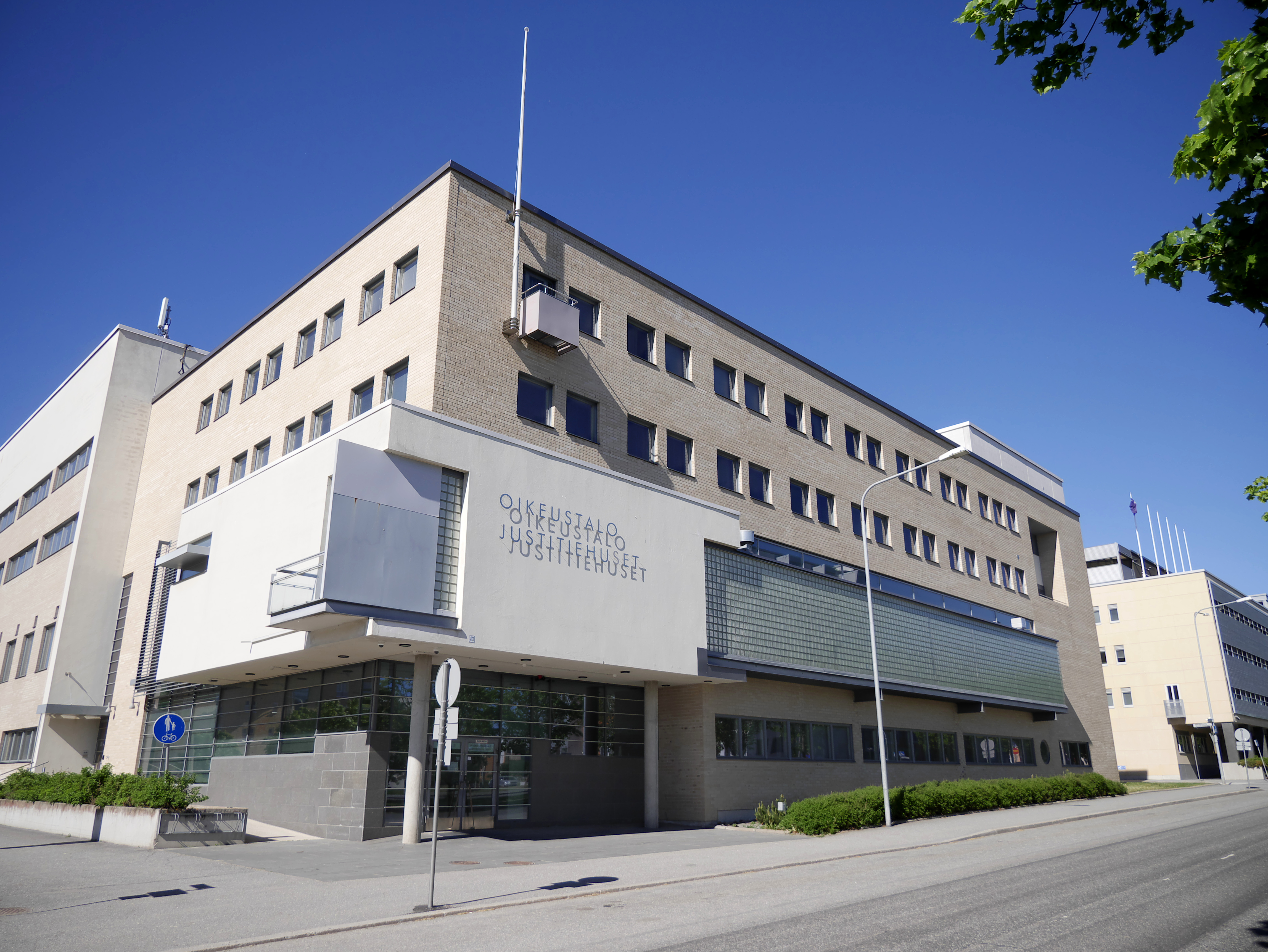 Courthouse in Vaasa.